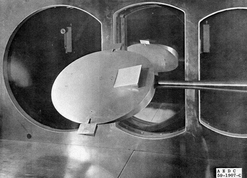 Pye Wacket missile prototype (AEDC Photo 59-1907-C)